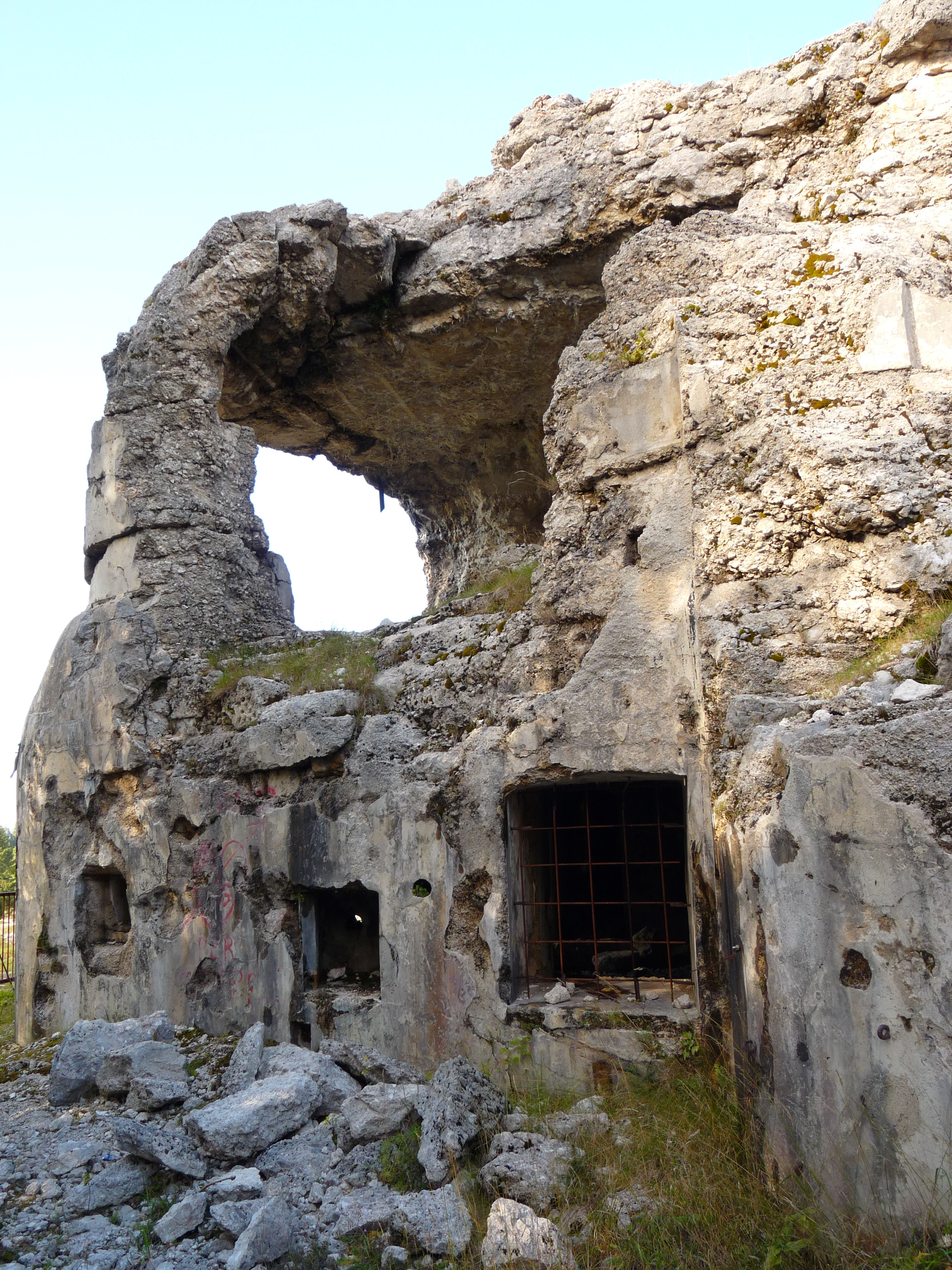 Levico Terme (Italy): view of a detail on the southern side of Forte Verle (Werk Verle) near Passo Vezzena